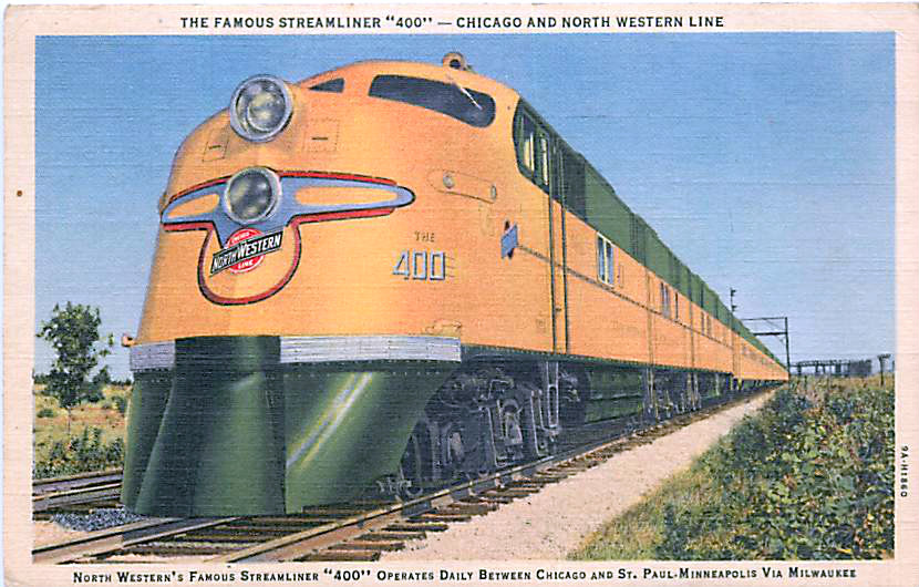 Postcard of the diesel-powered 400.